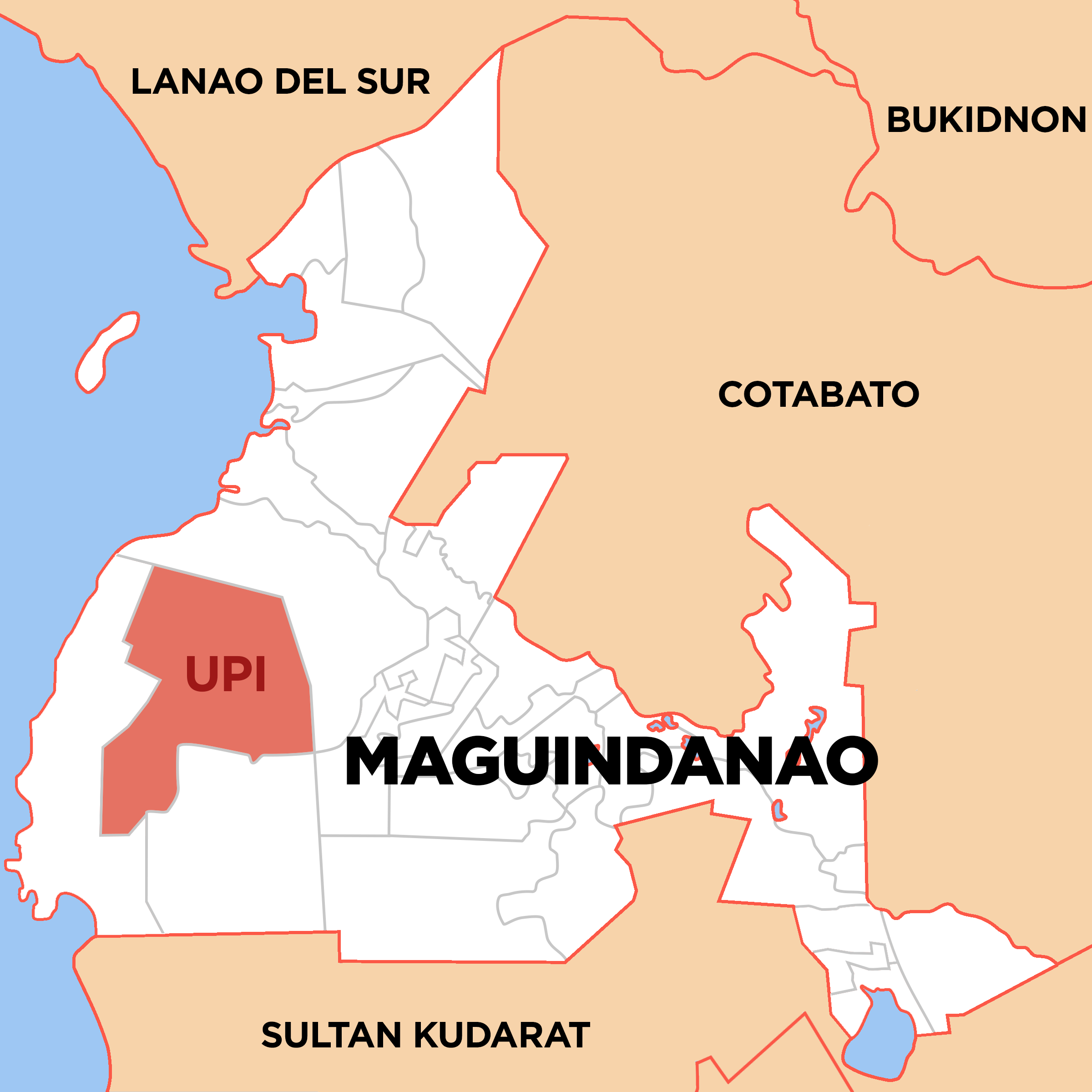 Map of the Maguindanao showing the location of Upi